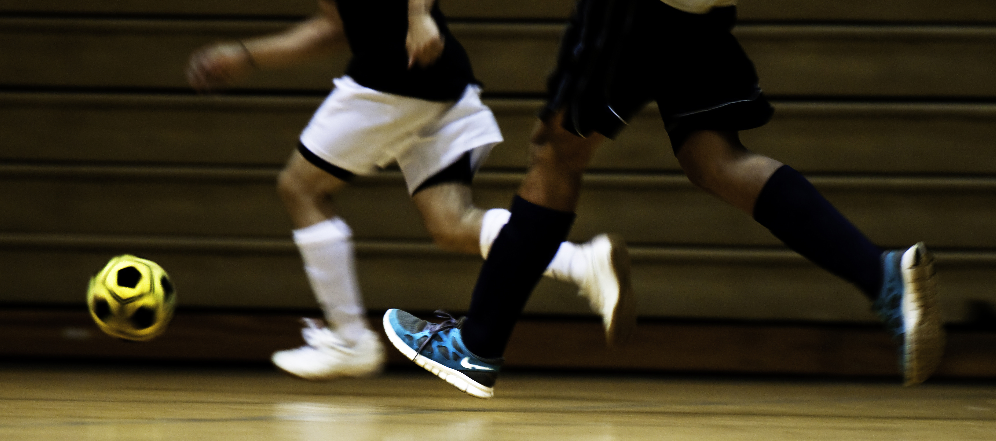 Feet chase after an indoor soccer ball during the Army's Hawaii indoor soccer tournament's championship game at Schofield Barracks, Hawaii, Feb. 29, 2011. The 524th Combat Sustainment Support Battalion, 45th Sust. Brigade, 8th Military Police Bde. team defeated the 715th Military Intelligence Bn., 500th MI Bde. team with a score of 4-0.